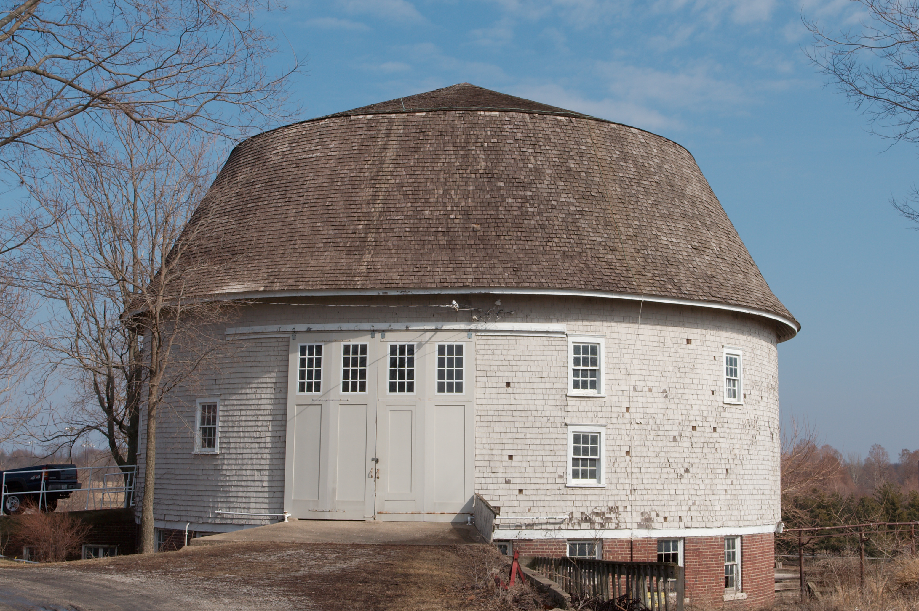 University of Illinois Experimental Dairy Farm Historic District, Urbana, IL